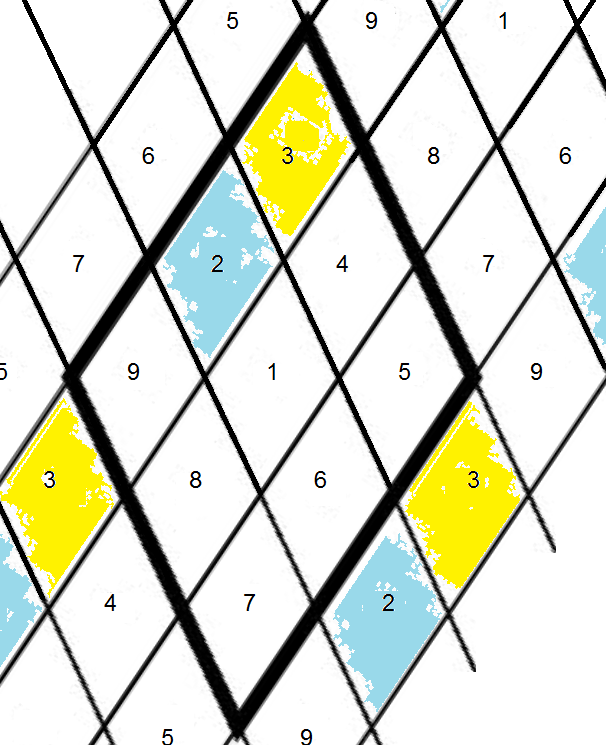 map displaying rhombus areas of private mobile radio coverage for frequency assignments (according German telecommunications act)